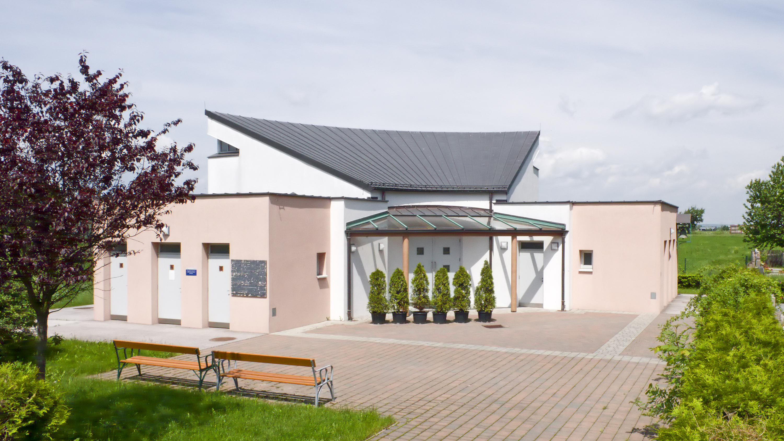 Cemetery Süßenbrunner Friedhof in Vienna Donaustadt